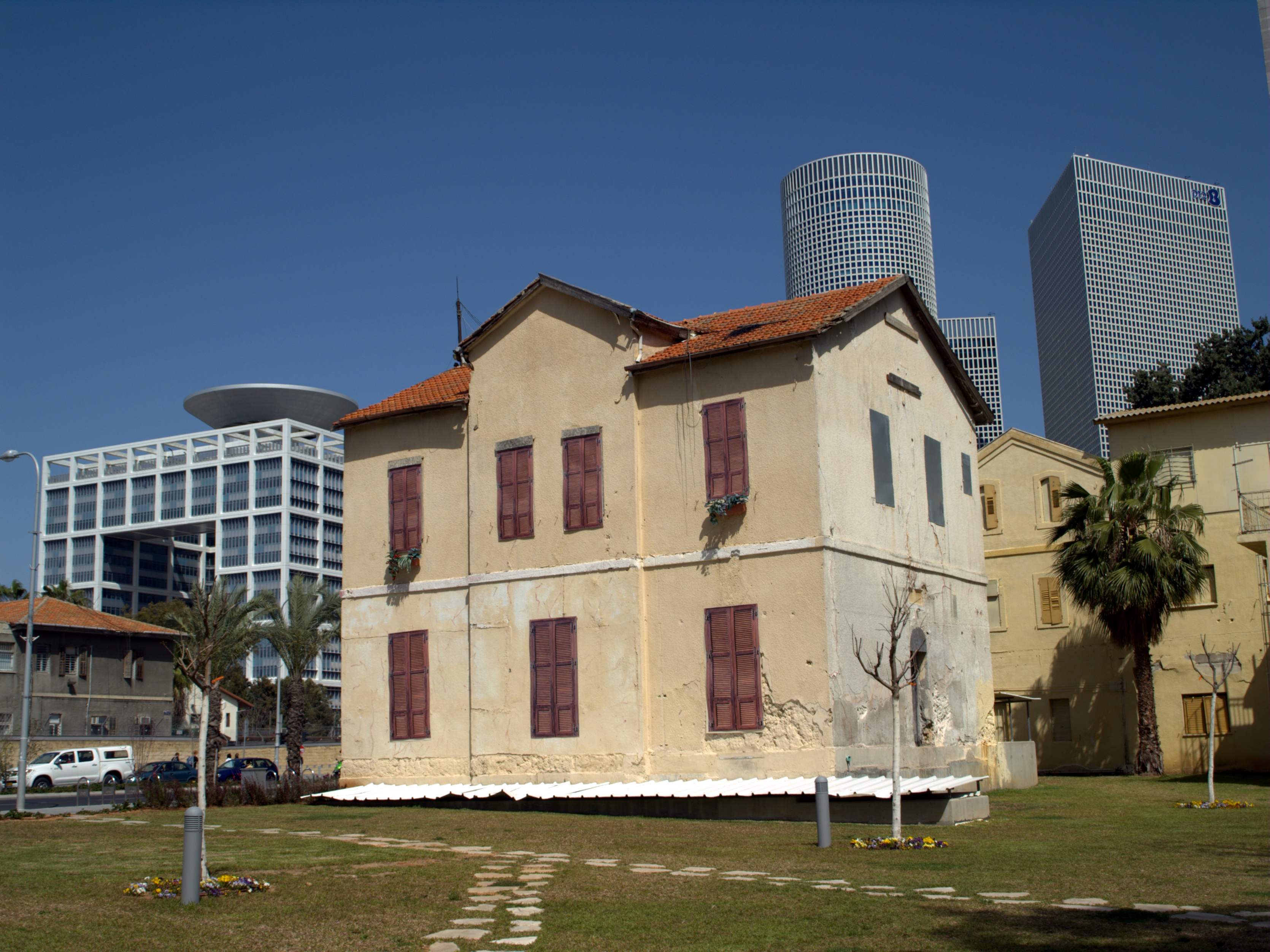 Grounds of the Templer buildings in the Sarona colony on Kaplan Street, Tel Aviv, Israel.